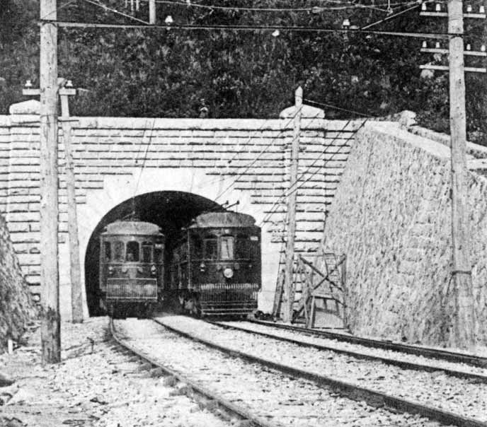 West side portal of Ikoma tunnel, Osaka Electric Tramway (now Kintetsu) just after its completion